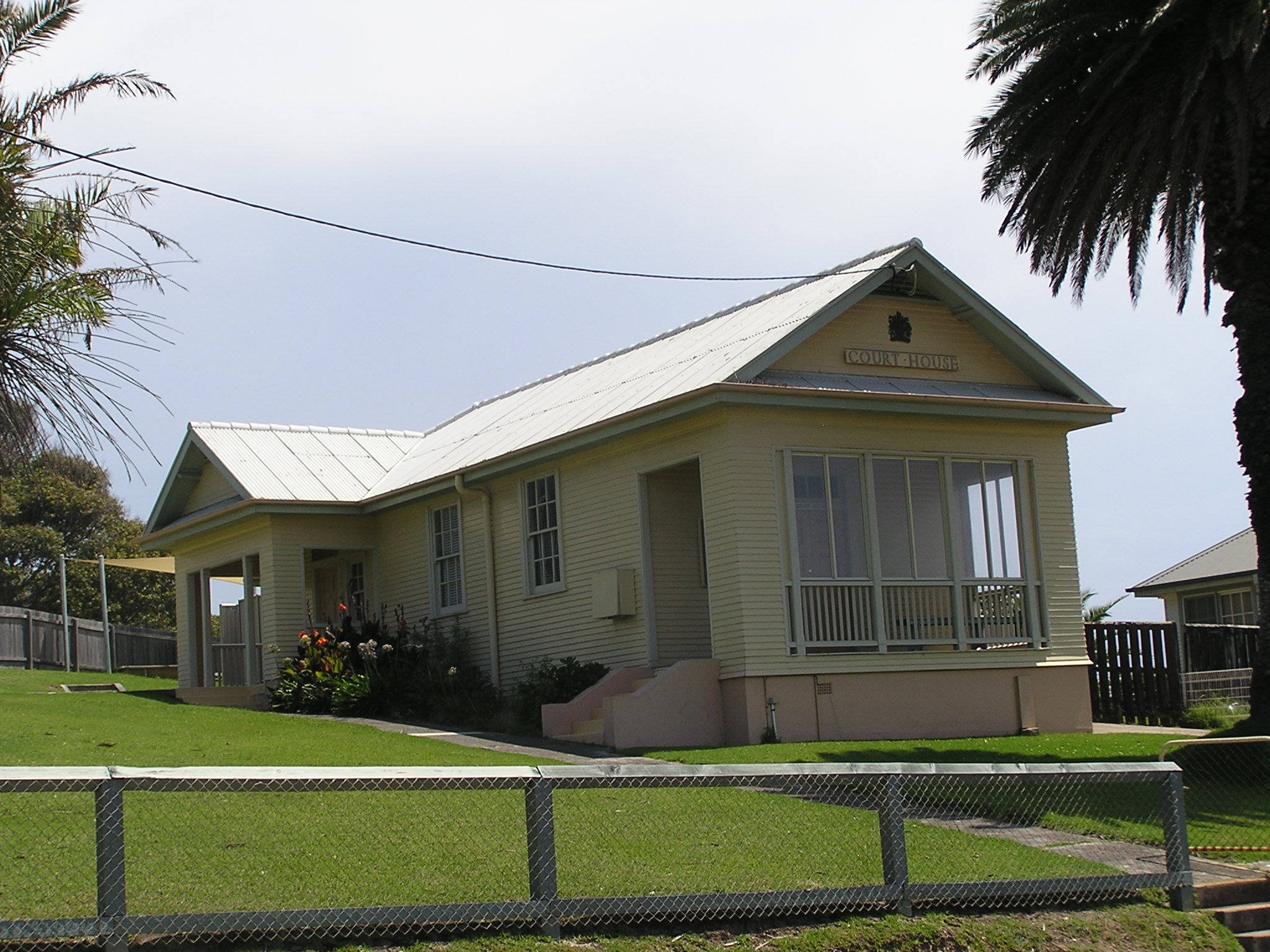 Court house at Narooma, New South Wales Australia The court house has been criticised as being the "smallest in the country".